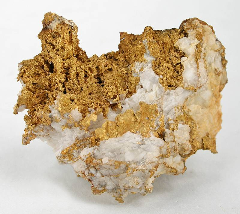 Gold Locality: Dafu, Sichuan Province, China Size: miniature, 4.6 x 3.8 x 2.3 cm Gold A rare Chinese gold specimen, quite rich with crudely crystalline gold AND leaf gold in veins running through the quartz. It is very hefty and rich, at 48 grams or so (about an ounce and a third)